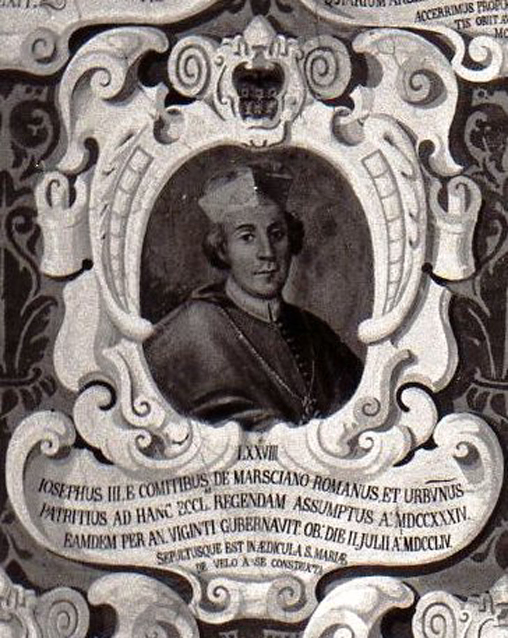 Giuseppe di Marsciano (1696-1754) bishopof Orvieto